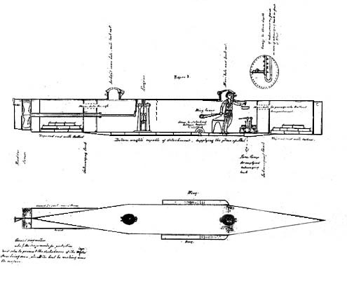 Believed to be the Confederate submarine American Diver. Sketch done by James Richard McClintock, one of her builders, in 1872.